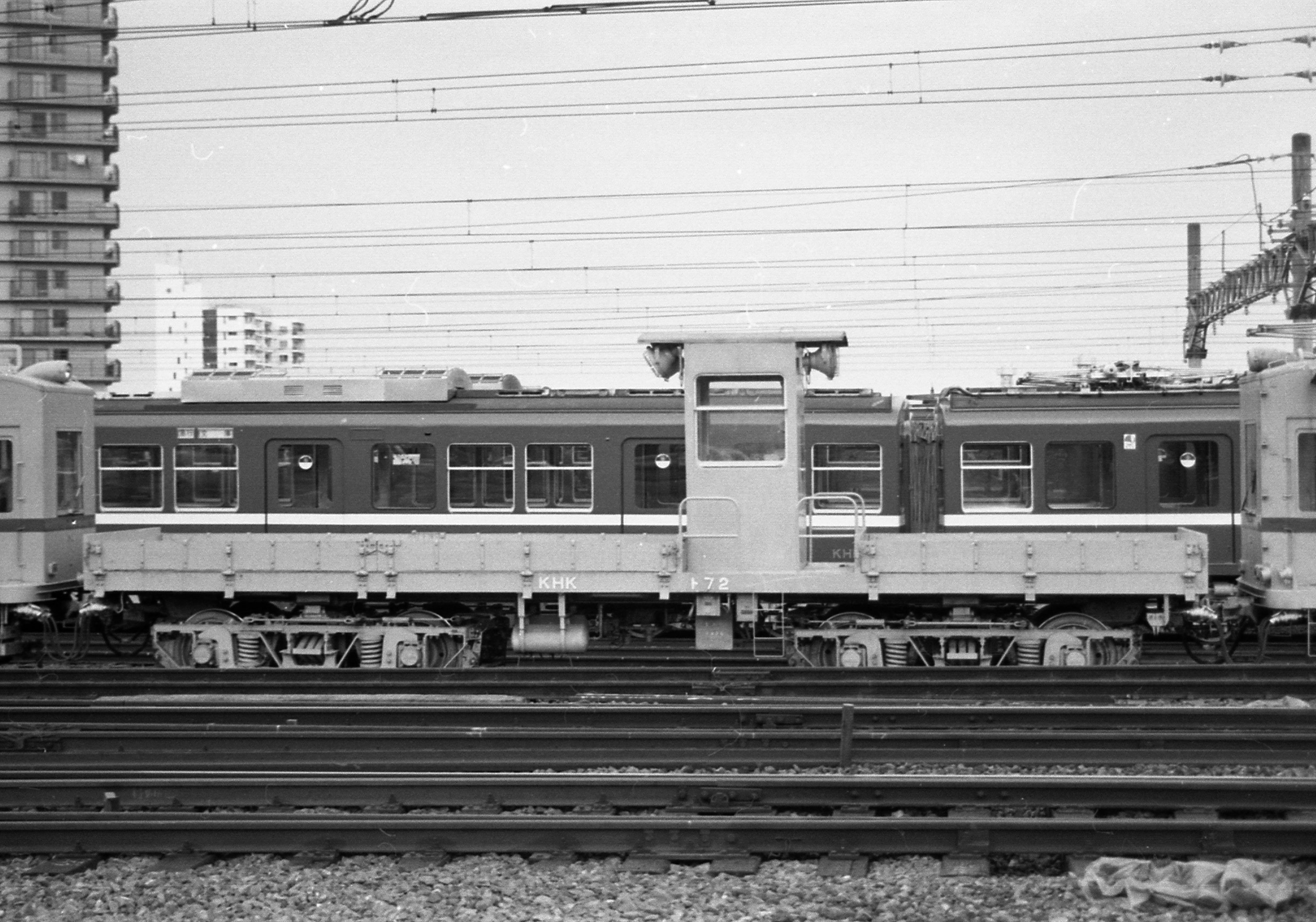 Keikyu To 72 at Kanazawa Depot